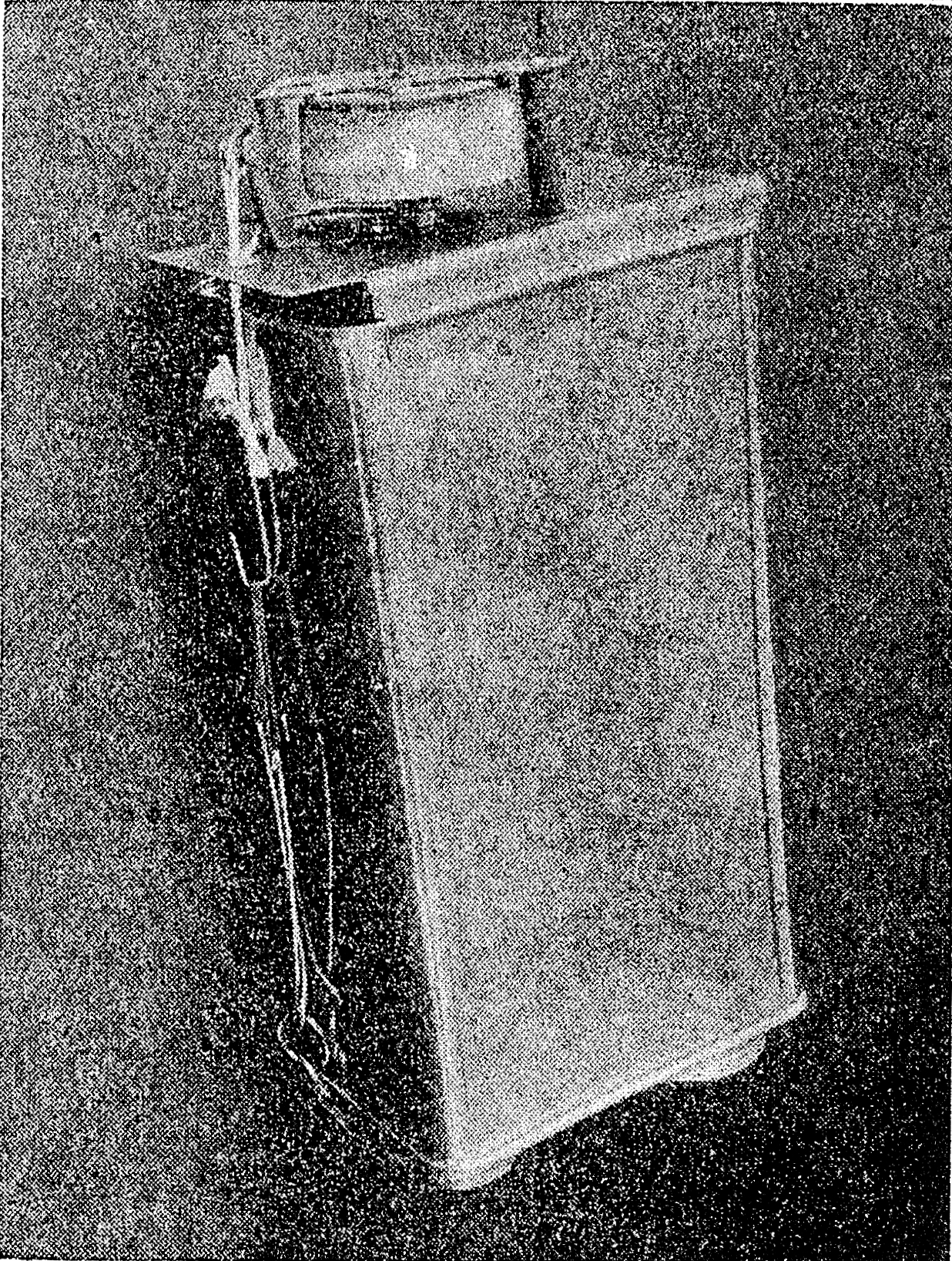 Image of a can of incendiary jelly dropped from free flying balloons. Detail from: Civil Defence Training Pamphlet No 2: Objects Dropped From The Air (3rd Edition). Issued by the Ministry of Home Security. This training pamphlet described some of the objects which could be found on the ground after and air-raid, including certain items which, though not of enemy origin, may be mistaken for hostile weapons, and others that may drop from the air at any time.